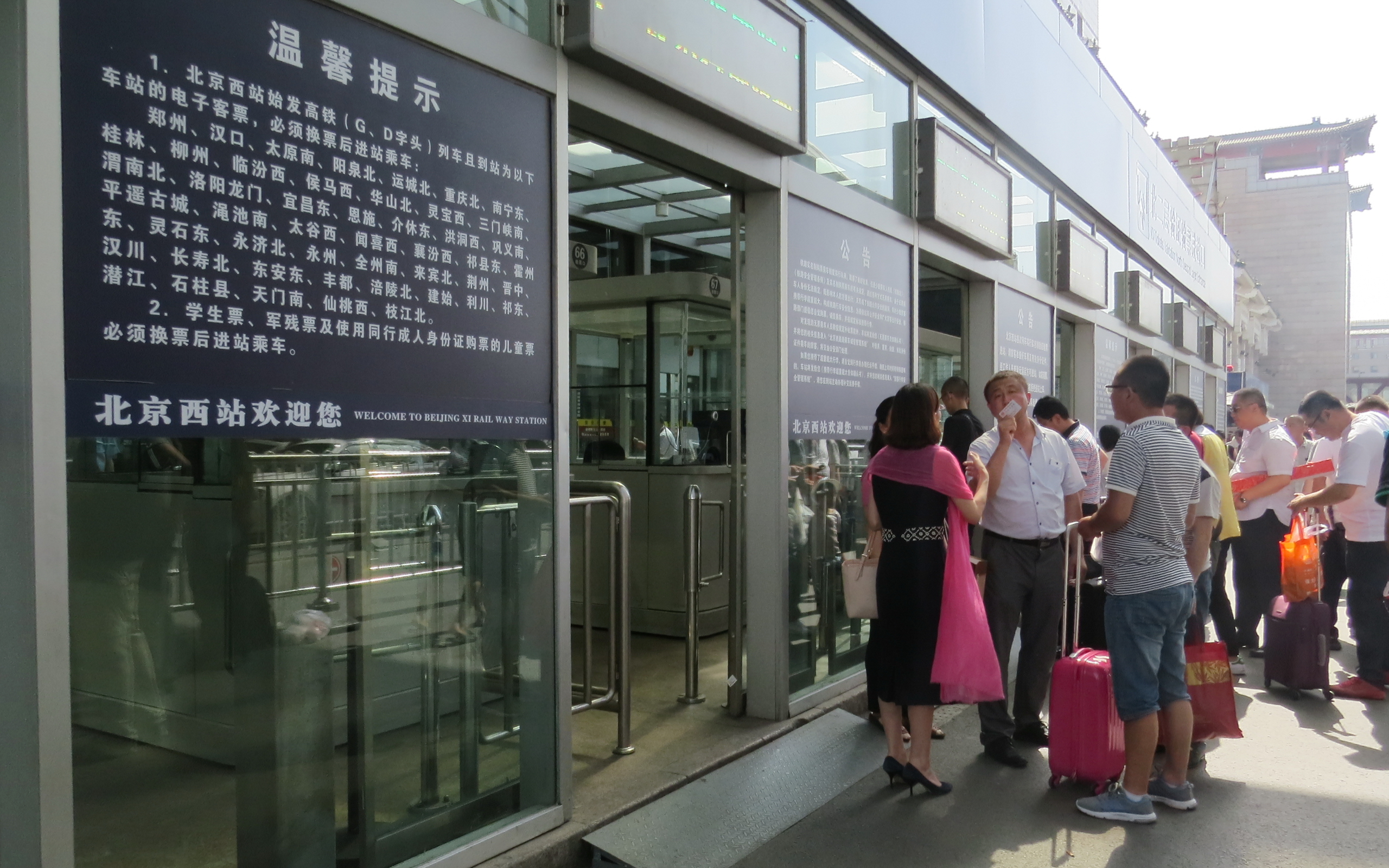 Main entrances on 2F.